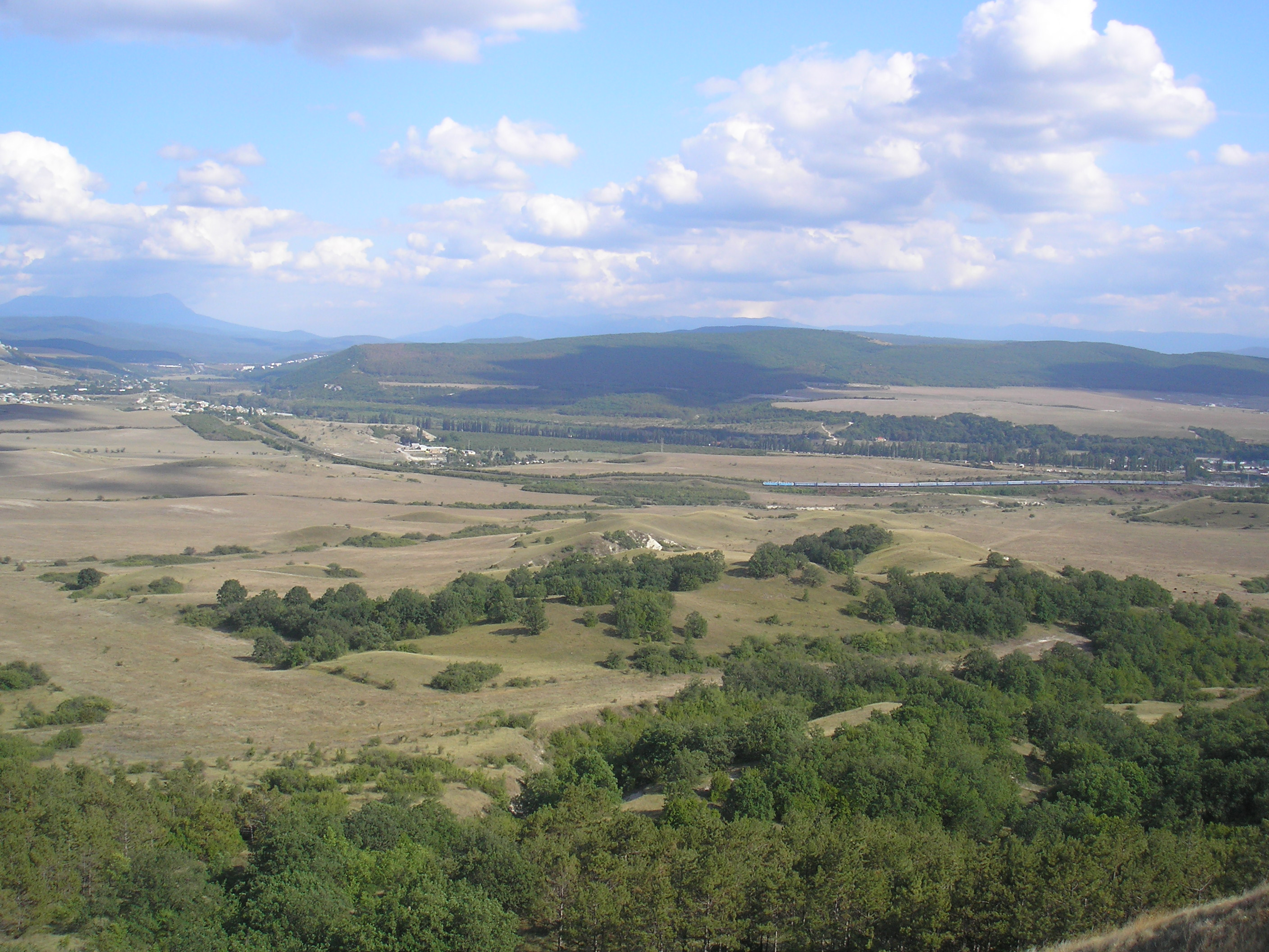 Alma River Valley between external and internal ridges of the Crimean mountains